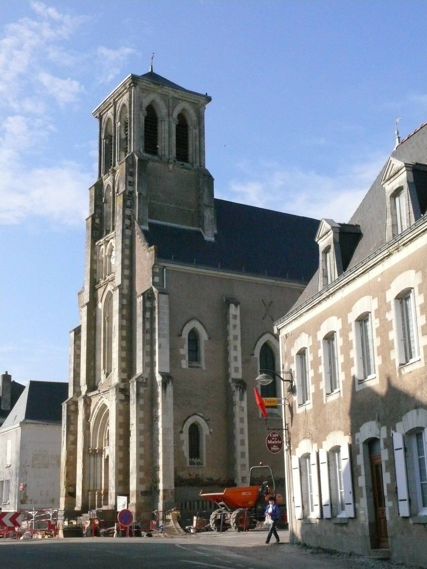 Saint-Clement's church of Saint-Clément-de-la-Place (Maine-et-Loire, Pays de la Loire, France).